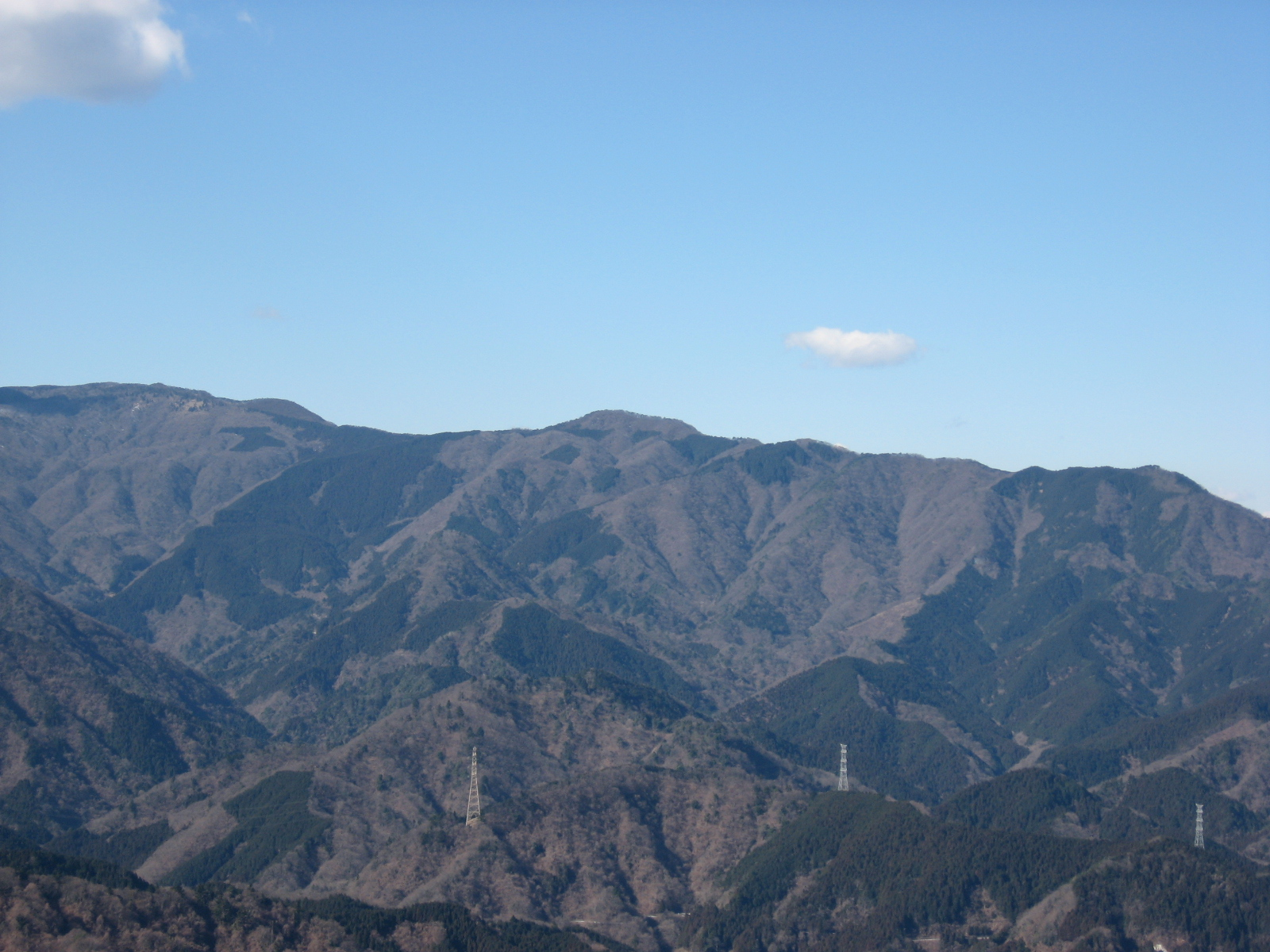 Mount Kibigara, center, as seen from the observatory on Mount Takatori in the Tanzawa Mountains, Japan